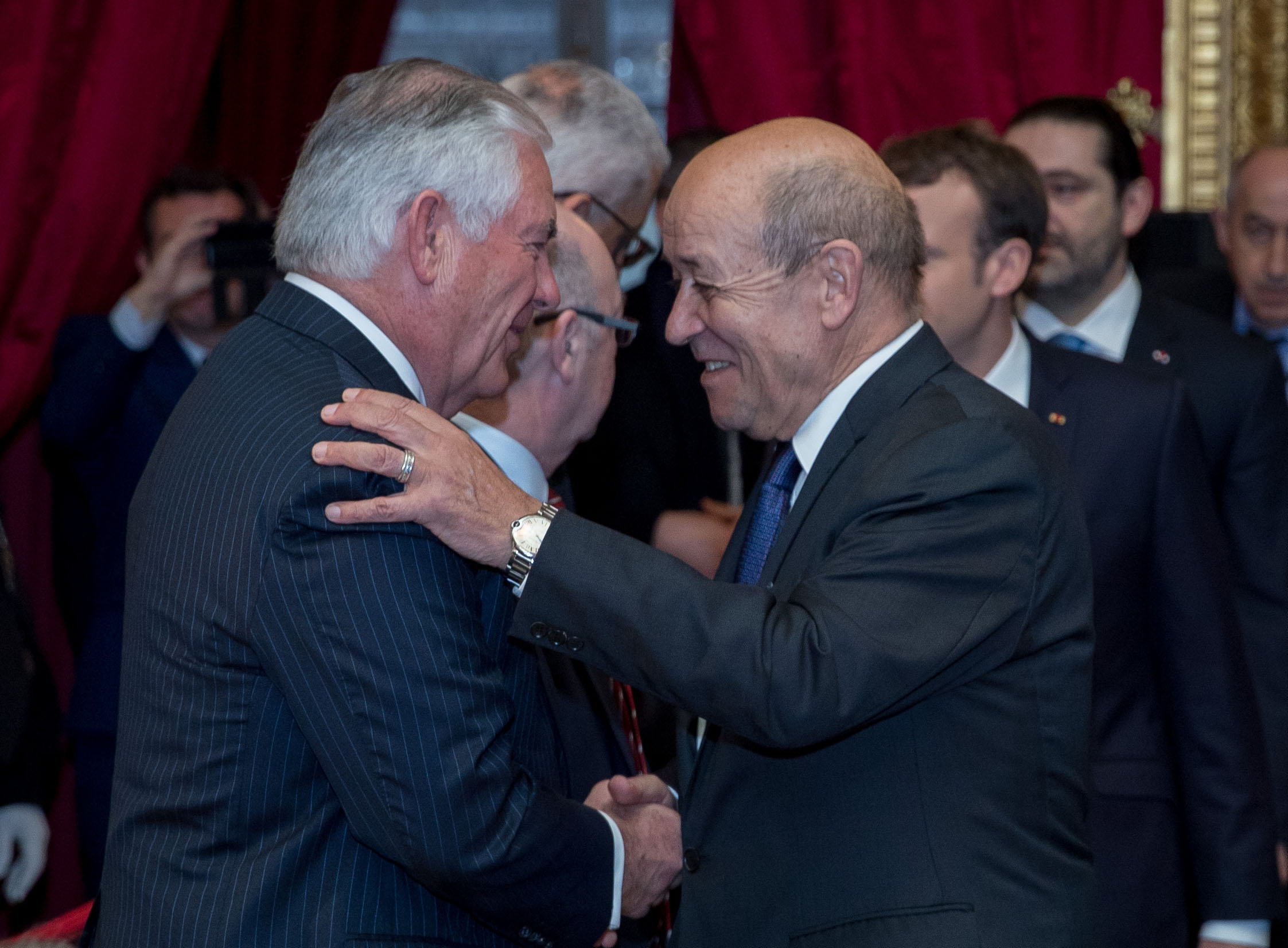 U.S. Secretary of State Rex Tillerson joins French Foreign Minister Jean-Yves Le Drian at the International Support Group (ISG) for Lebanon ministerial at the Quai d'Orsay in Paris, France on December 8, 2017. [State Department Photo/ Public Domain]